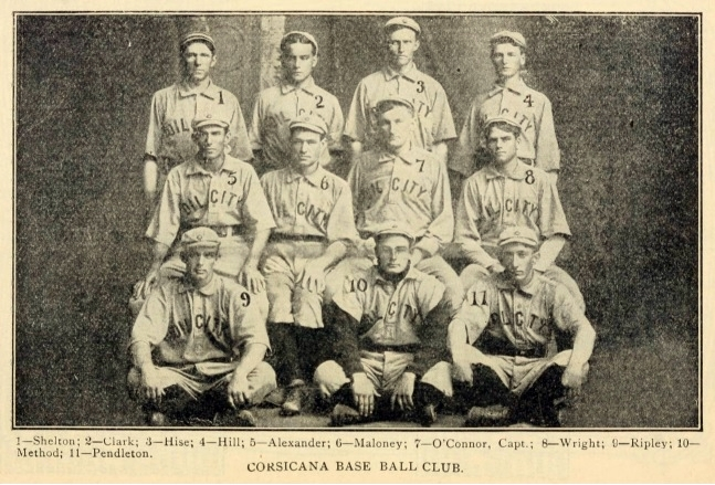 The 1902 Corsicana Oil Citys, a minor league baseball team from Corsicana Texas